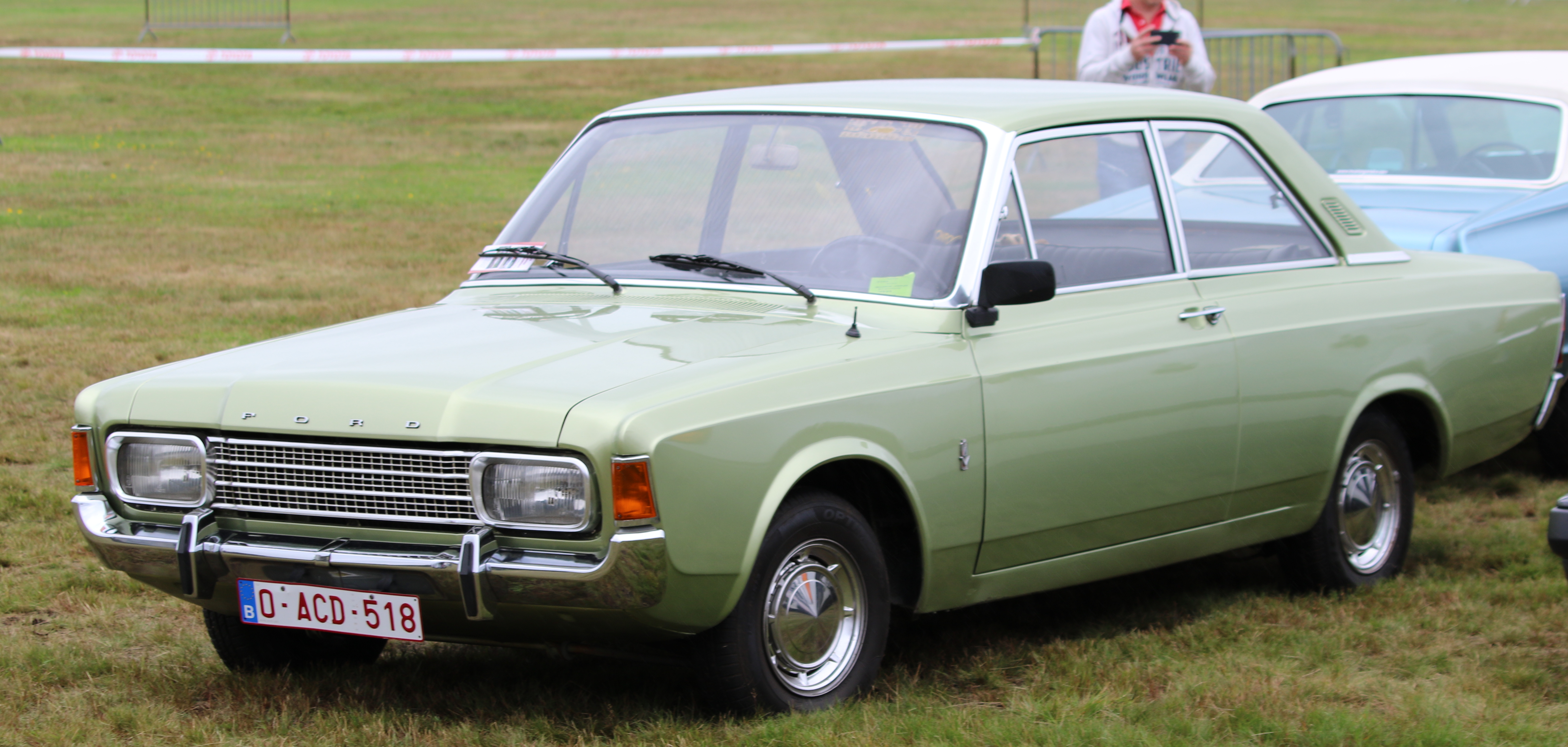 Ford Taunus 17M 1,7 V4